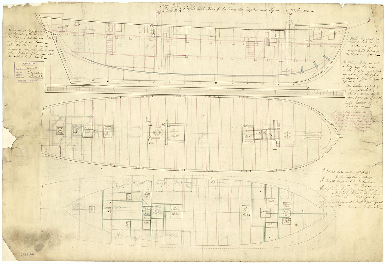 HMS Tyrian (1826), HMS Zephyr (1823), plans of profile and decks, built as an packet